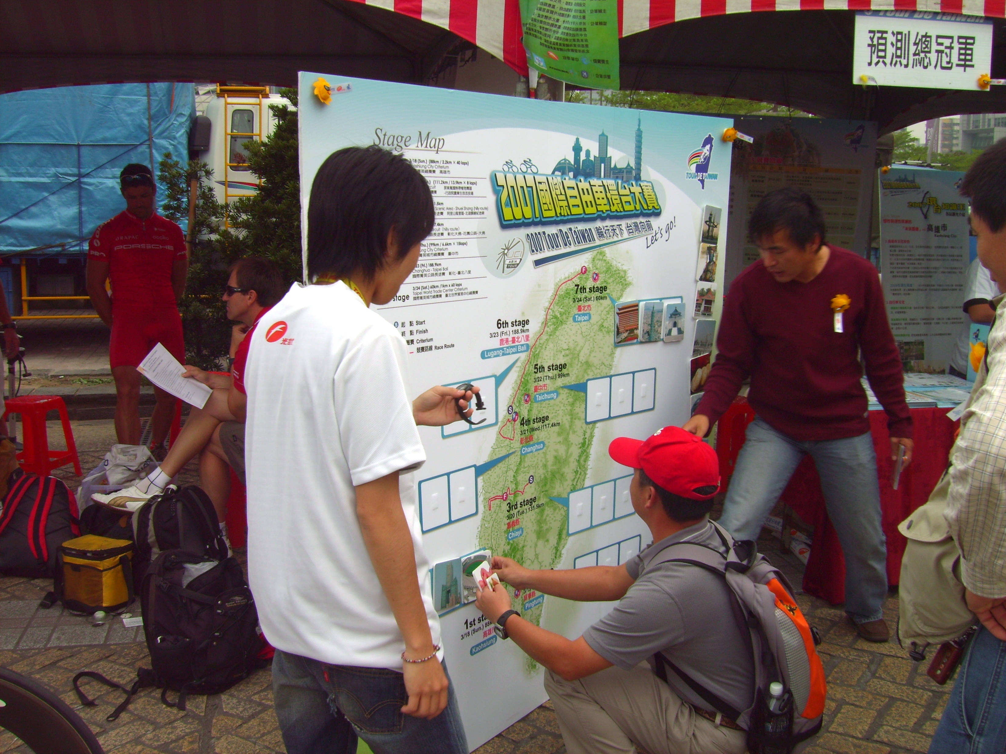 Tour de Taiwan 2007: In the exhibition area, the organizer also provide interactive game and winner prediction.